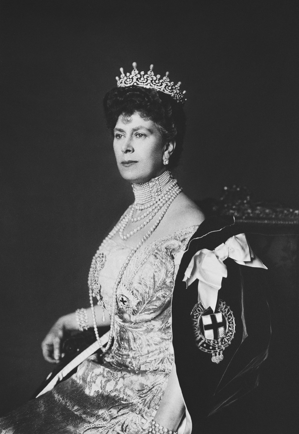 Photograph of Queen Mary